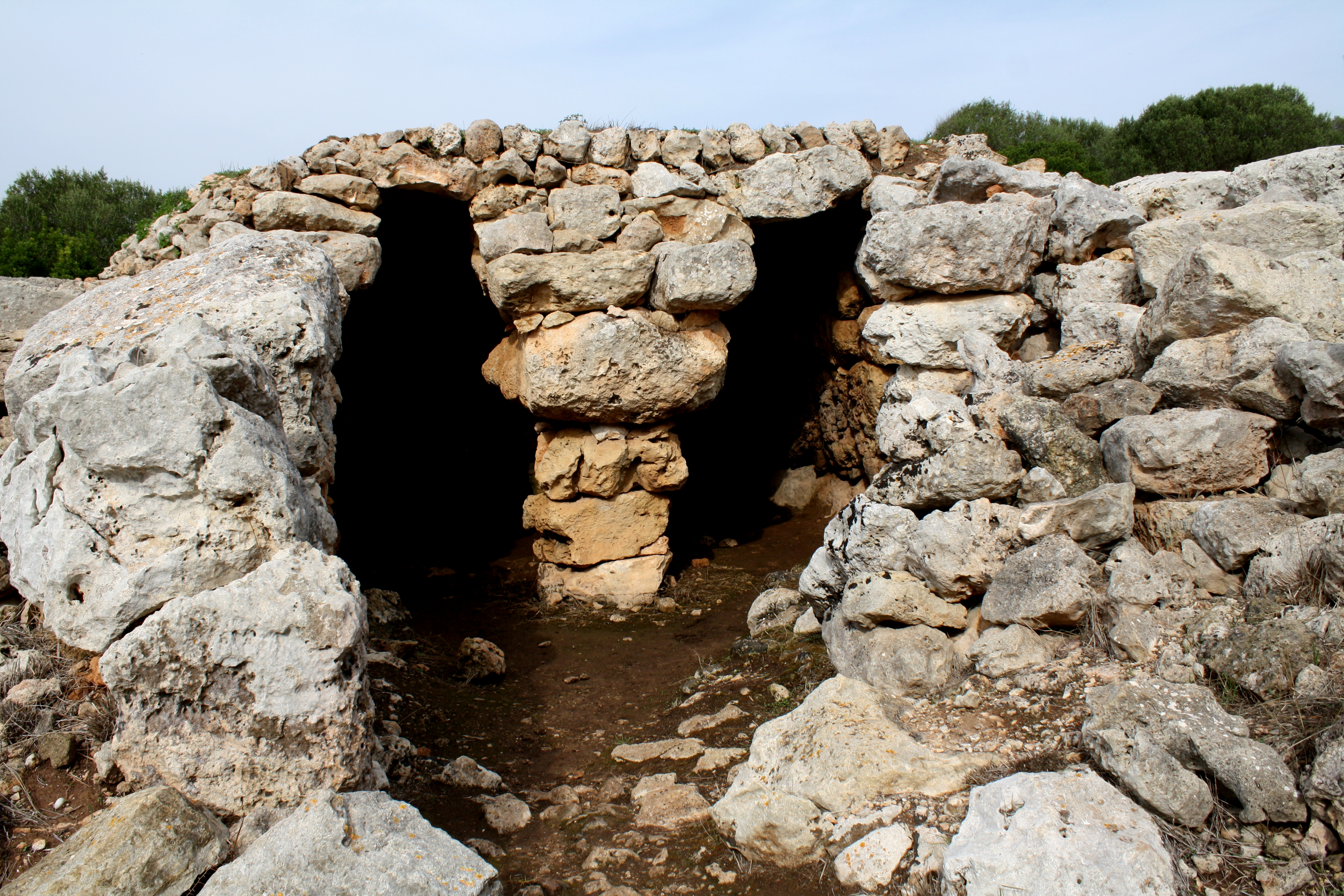 Entrance to naviform house "Cova des Moro" in prehistoric settlement Son Mercer de Baix, Ferreries, Minorca.